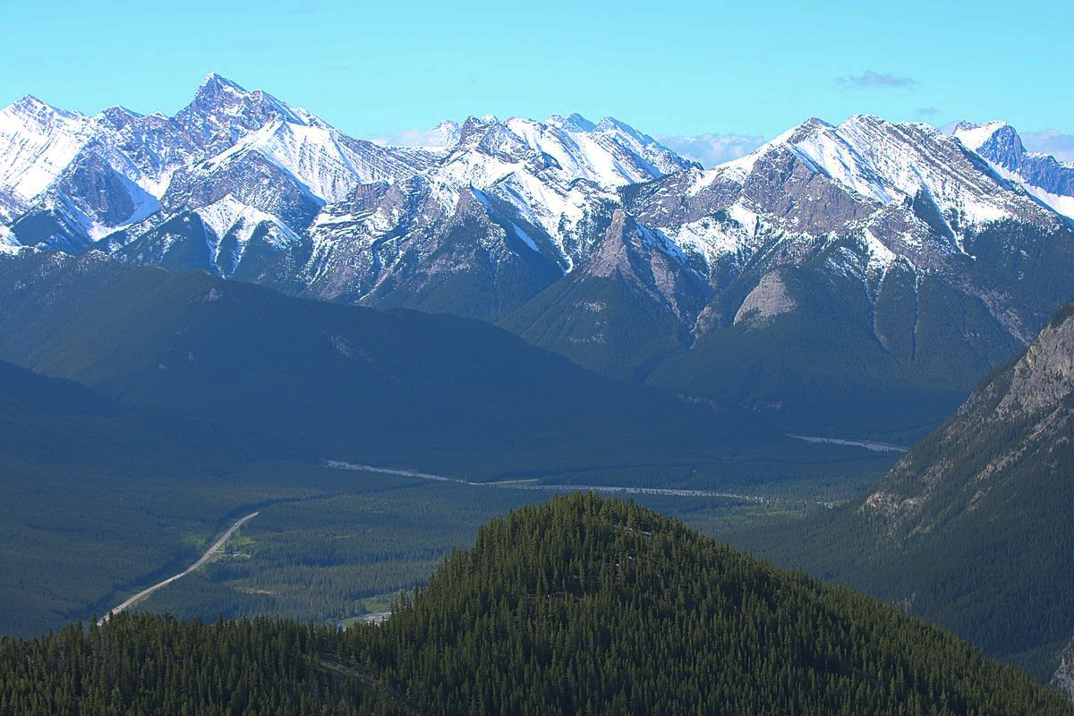 Looking south down the Kananaskis valley